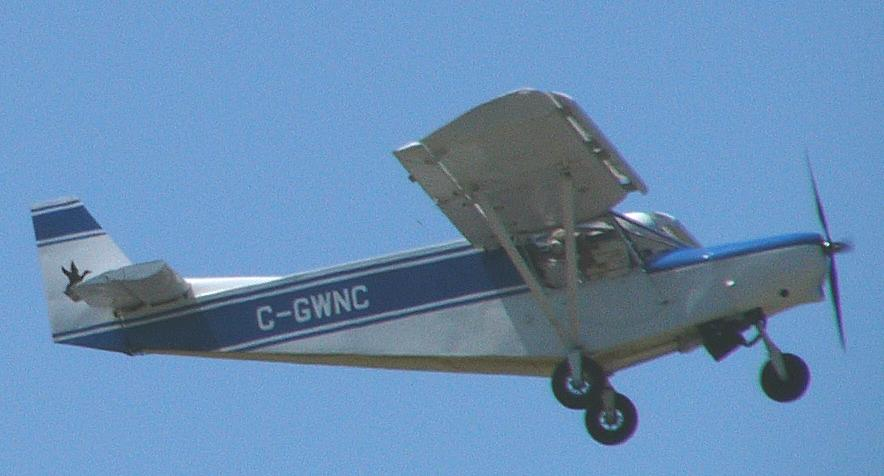 Zenair CH701